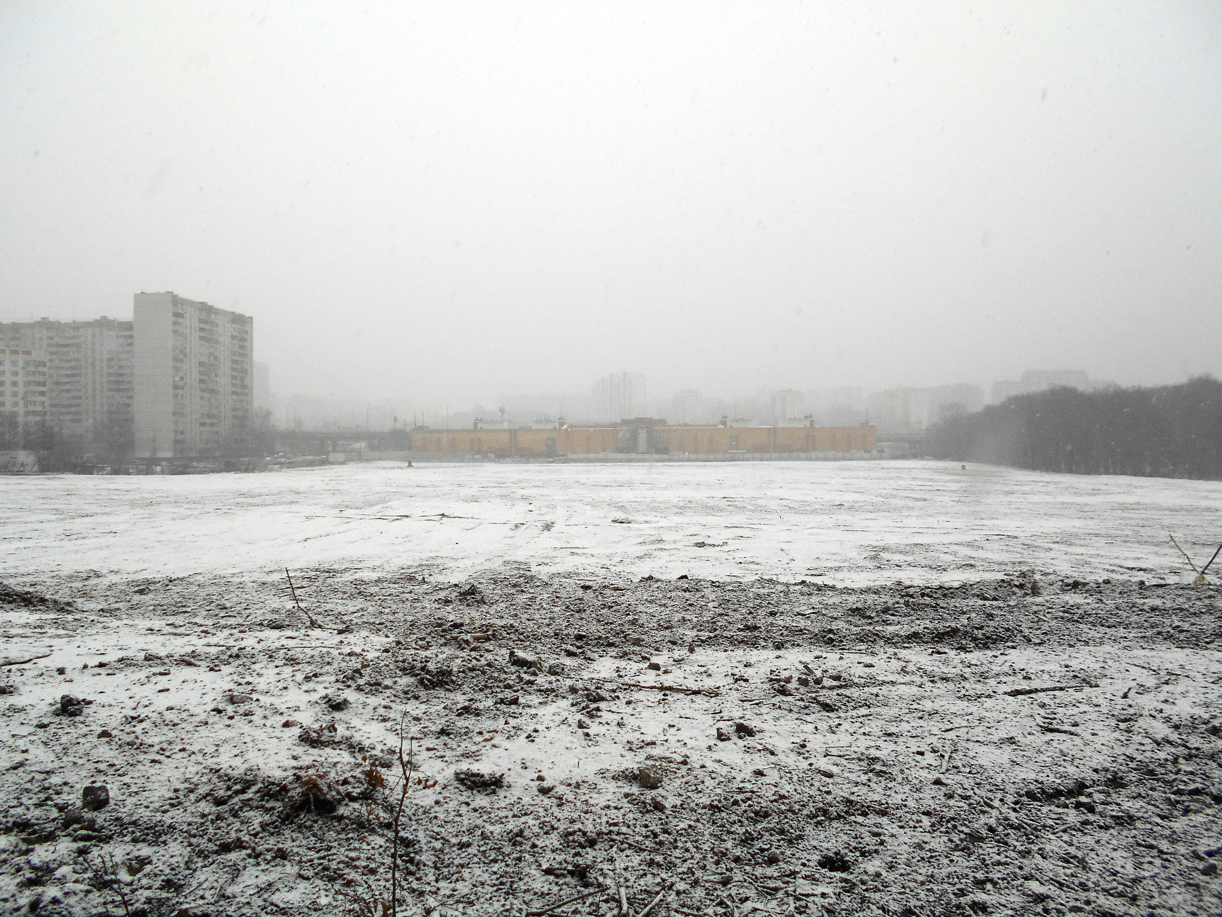 The place where Khovrinskaya hospital stood